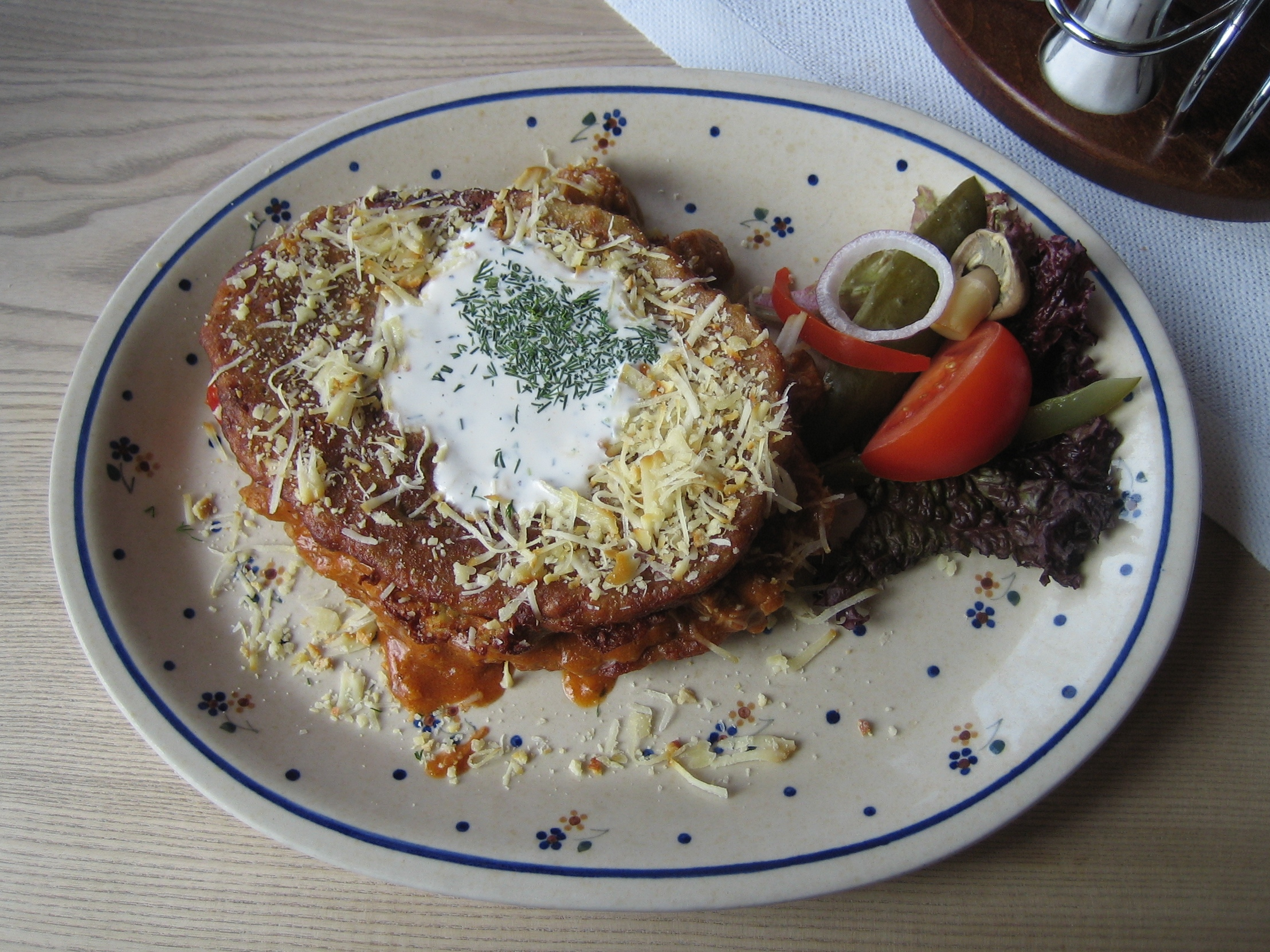 A Polish potato pancake and spicy goulash dish (Placki ziemniaczane z gulaszem na ostro), served with sheep's cheese and sour cream (perhaps mixed with yogurt).